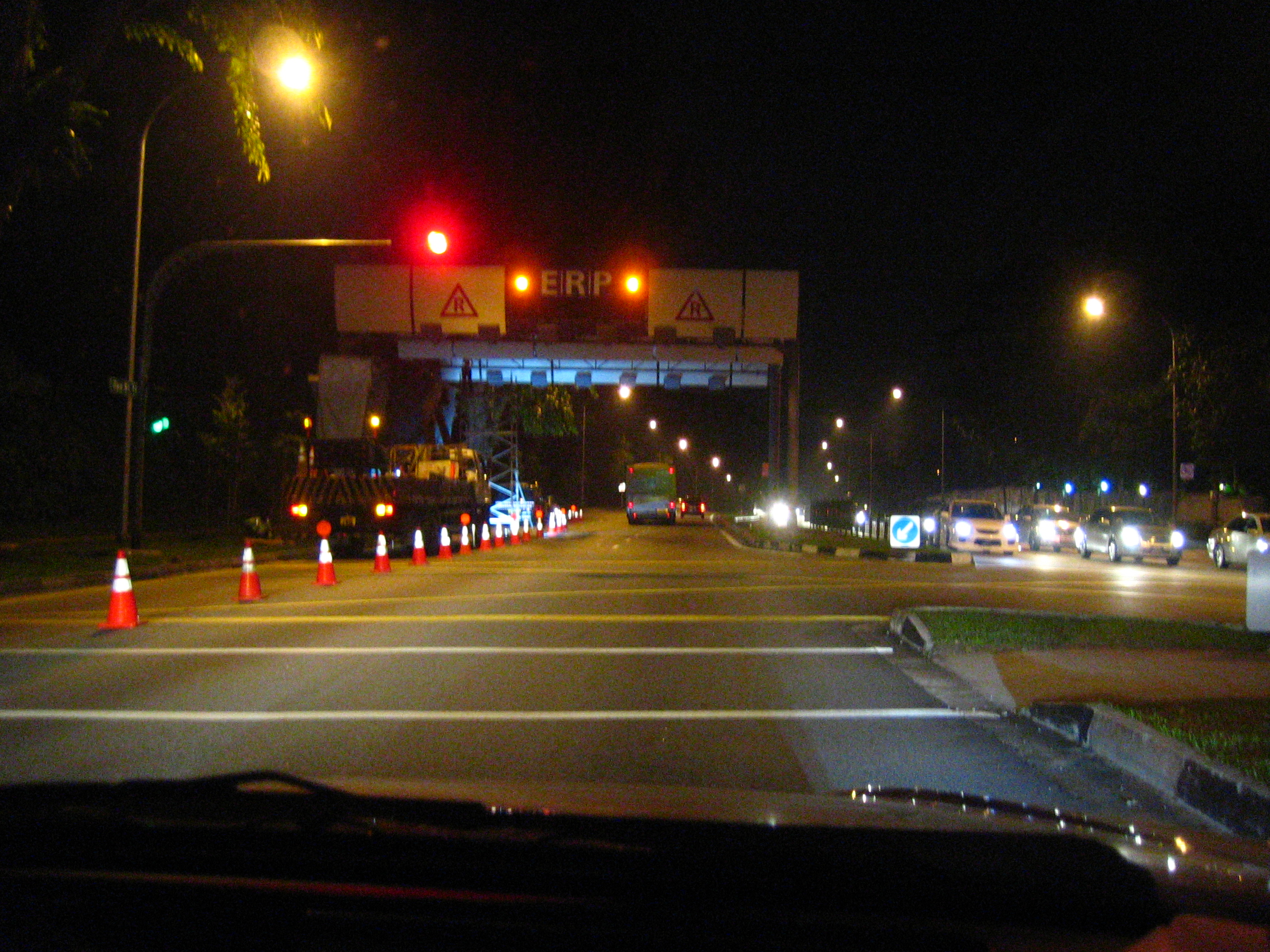 Night works for the installation of a new ERP Gantry at Hill View, Singapore